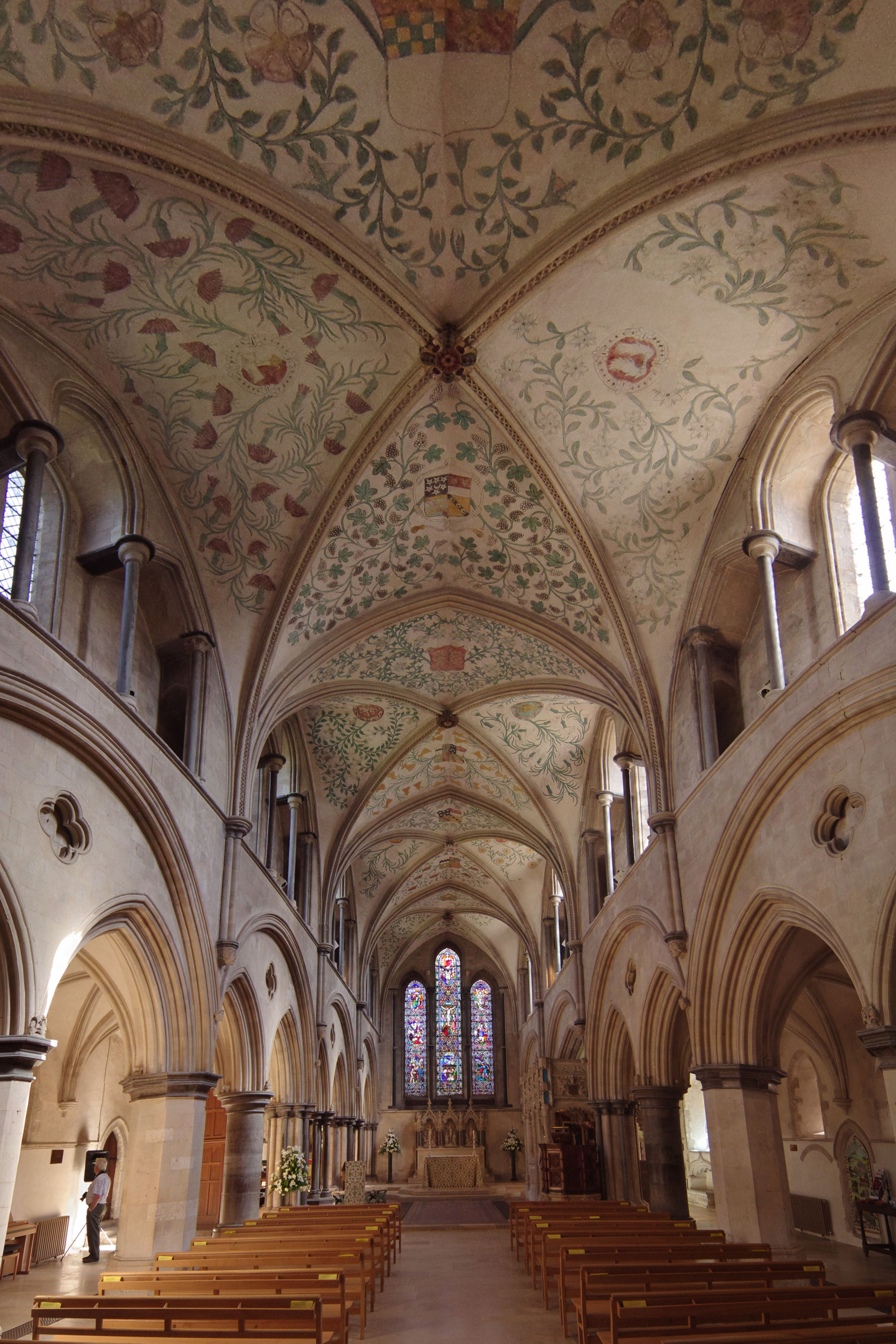 Church of St Mary and St Blaize. Nave & vaulted ceiling. Lambert Barnard, a local artist, was commissioned to paint the ceiling of the nave with the arms and crests of his patron's families entwined with flowers and foliage.